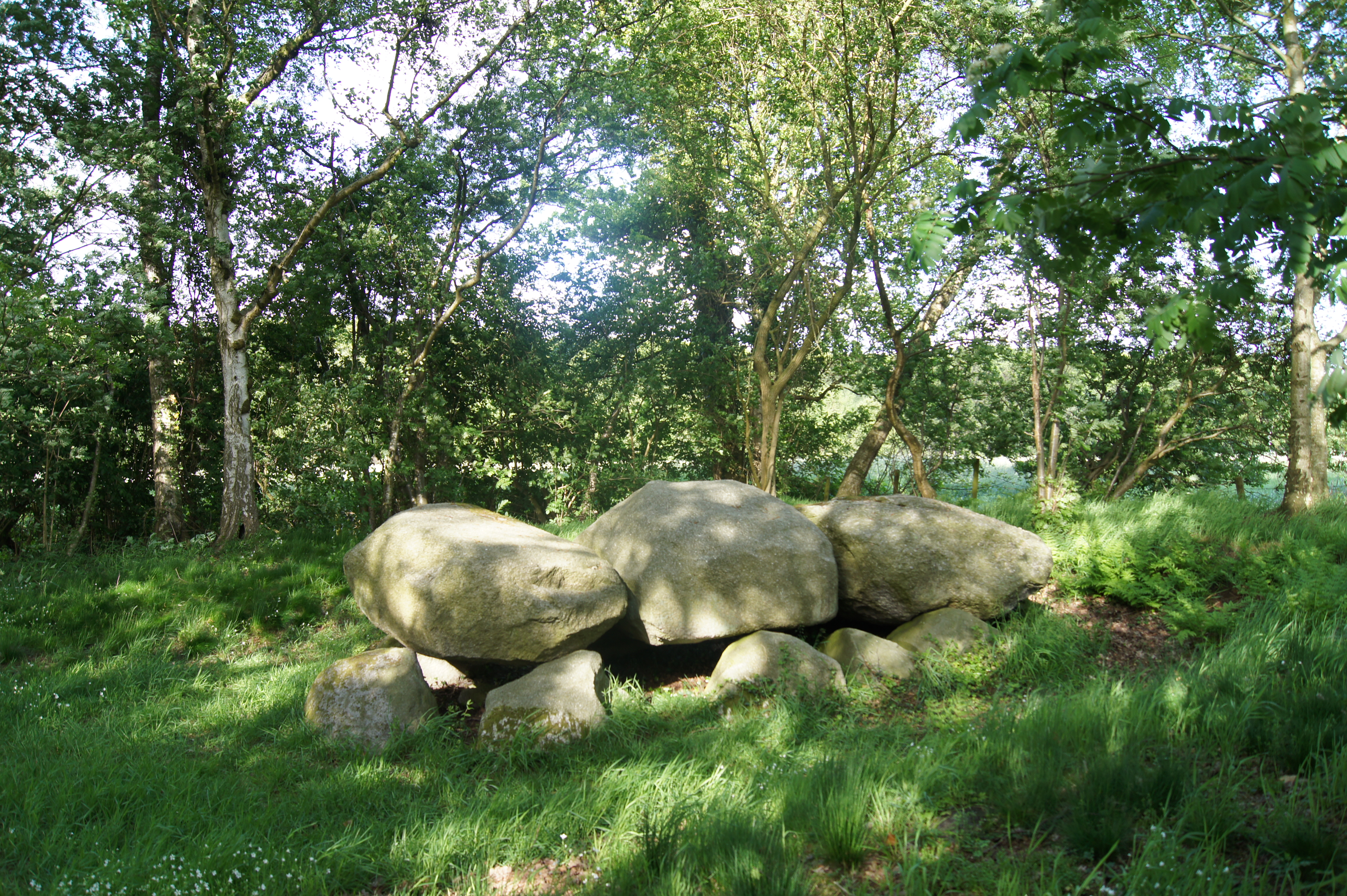 Hammah (Sterneberg), Germany: Dolmen